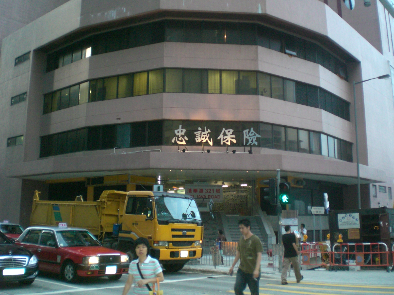 北角渣華道黃昏 zh-yue:柯達大廈